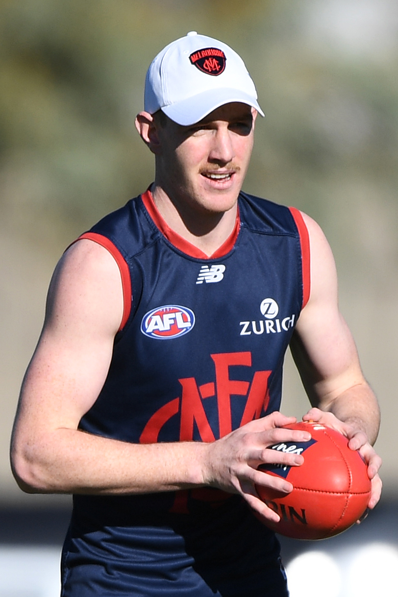 Harrison Petty of Melbourne during Melbourne training at Traeger Park on Saturday, 20 July 2019 in Alice Springs, Northern Territory.